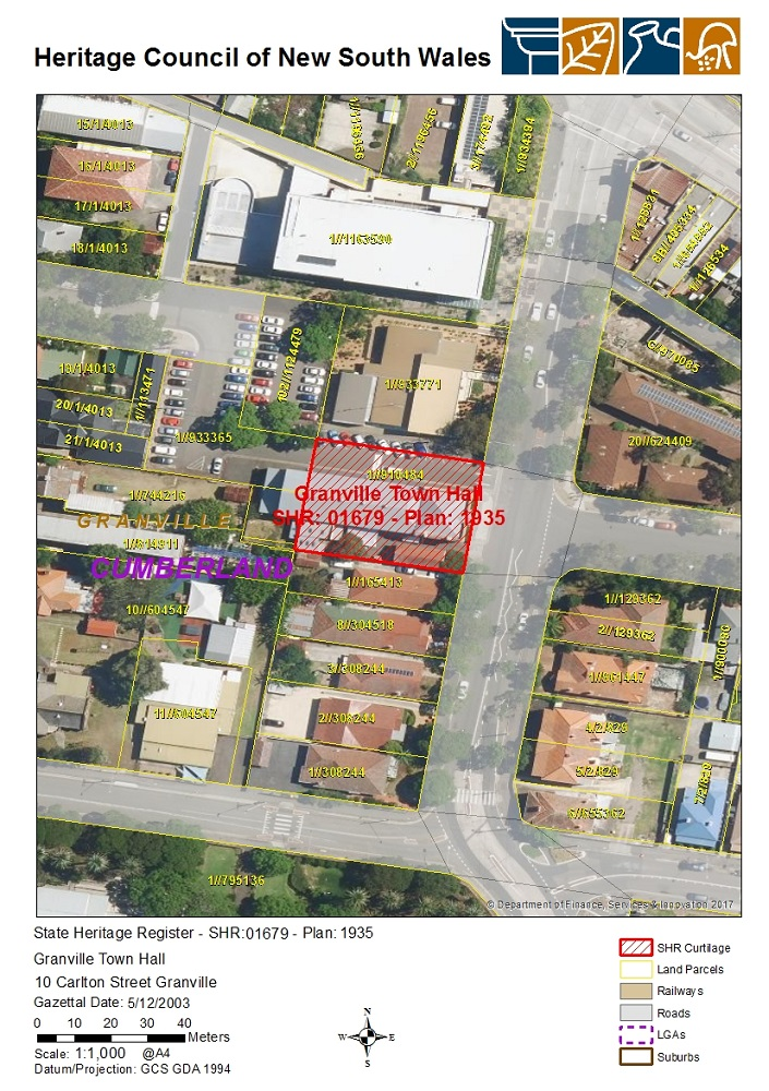 Granville Town Hall: SHR Plan 1935